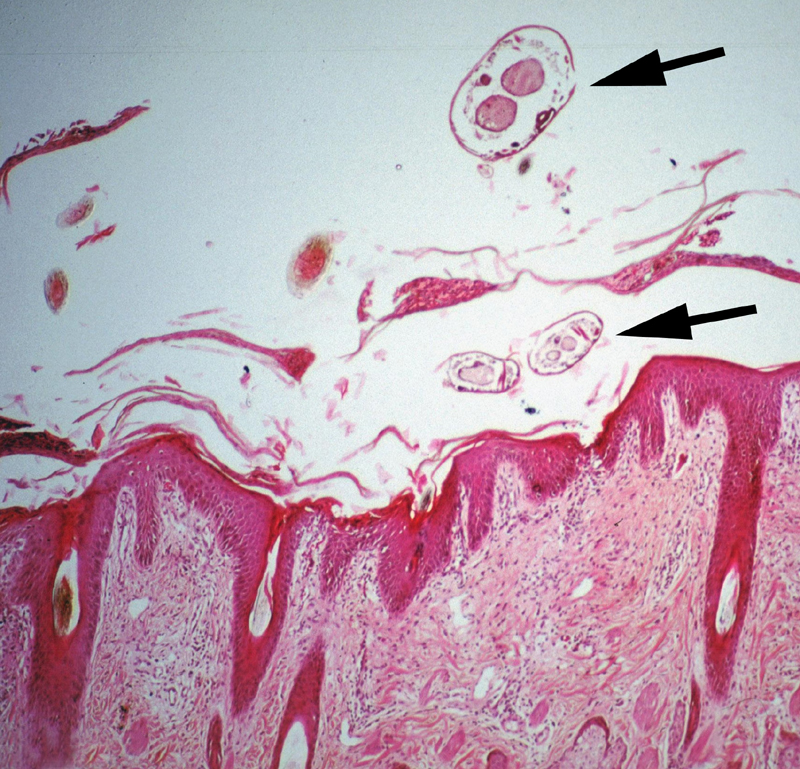 Photograph of infestation by parasitic mite of domestic animals.